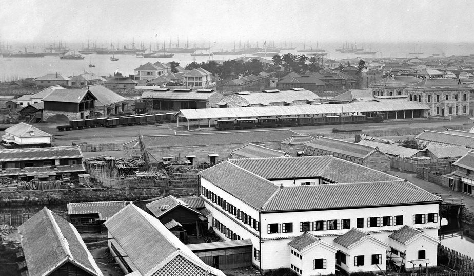 Yokohama railway station